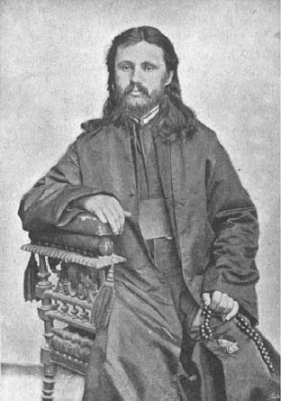 Dionisije Miković